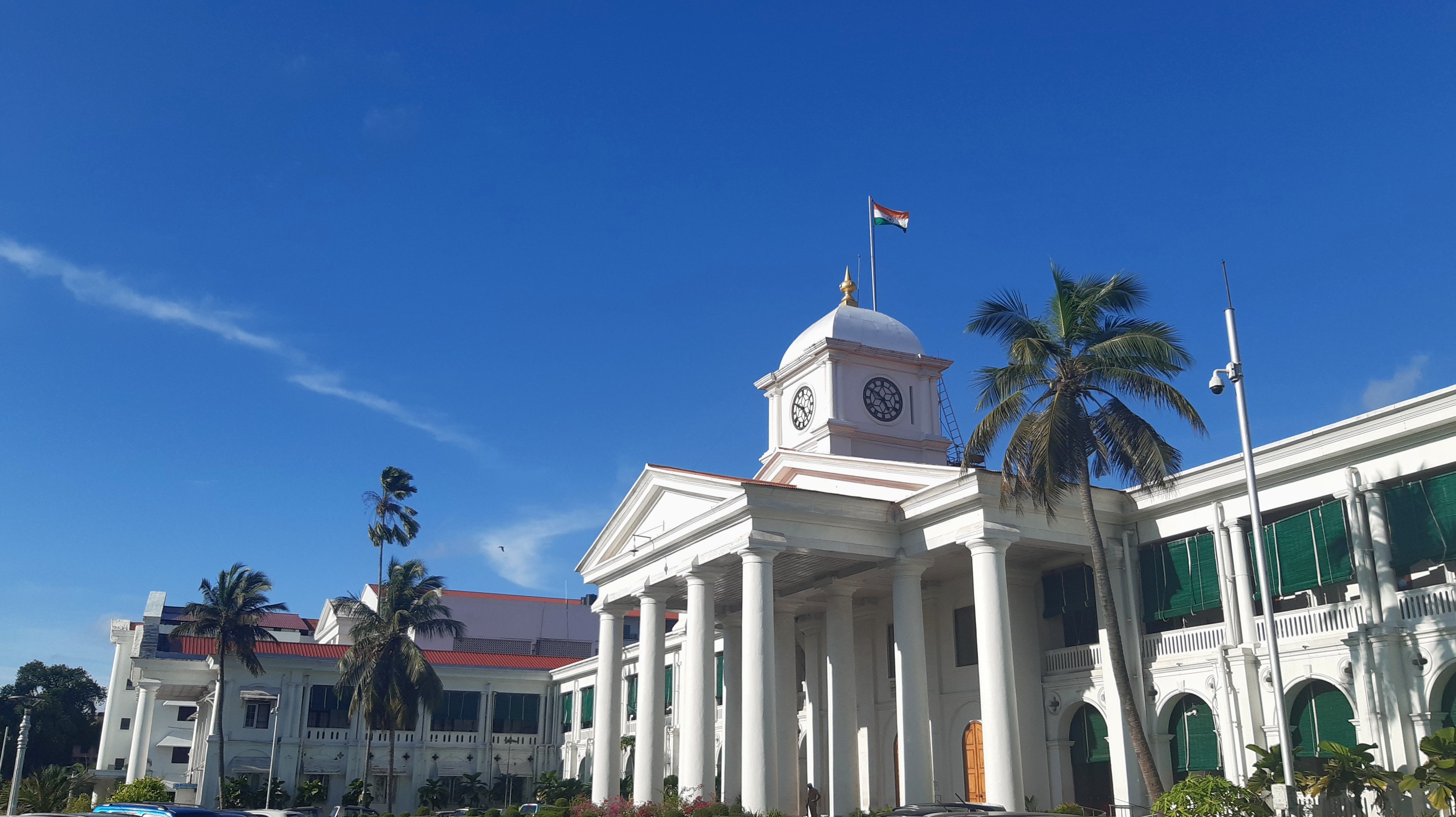 Administrative head office of Government of Kerala